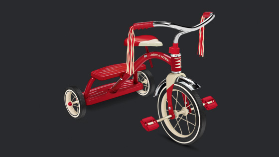 Tricycle icon